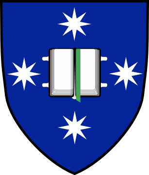 University of New Zealand (1870-1861) Logo